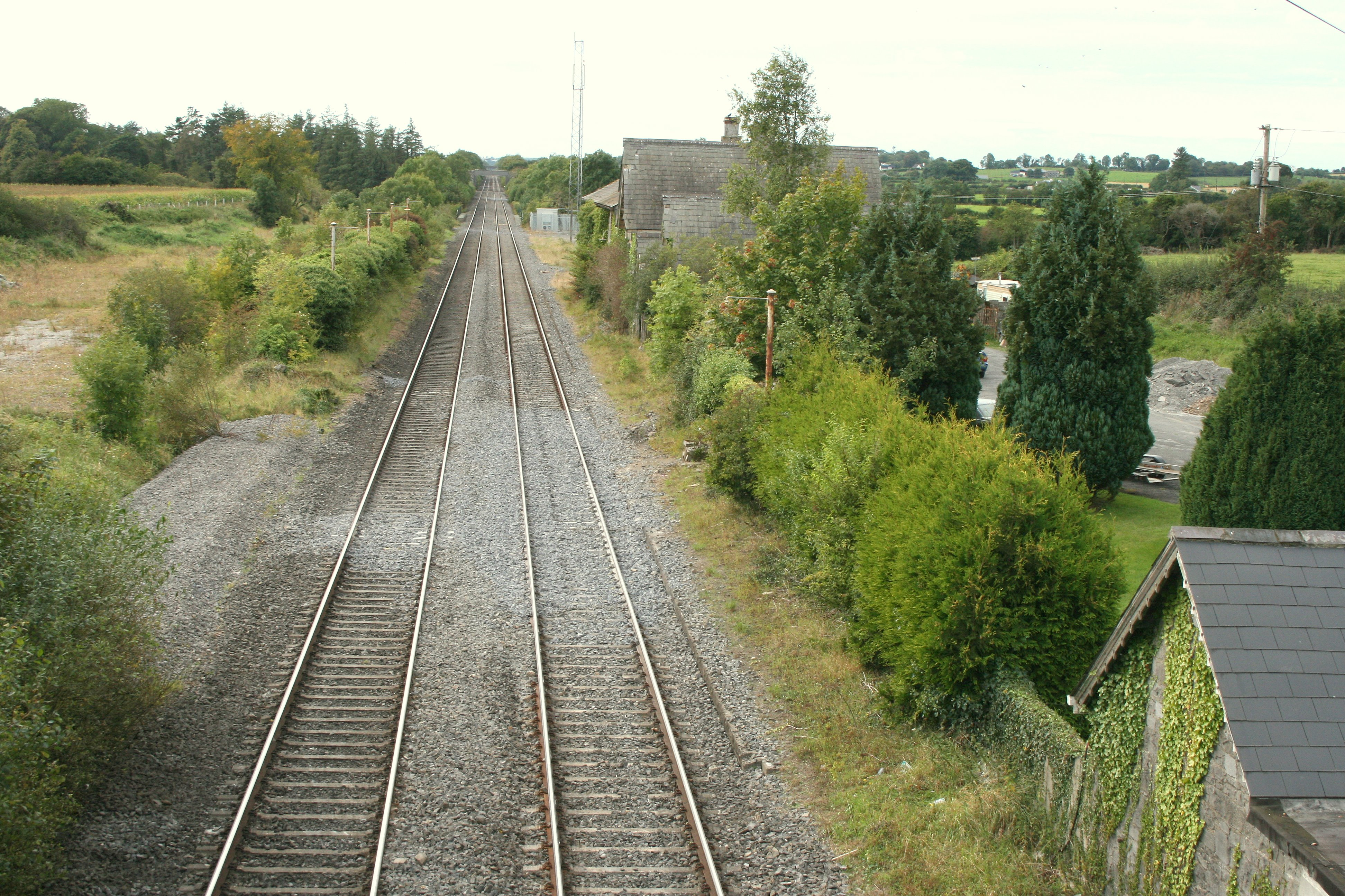 Kilbricken Railway Station (abandoned) on the Dublin-Cork railway line